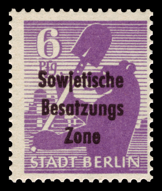 series of stamps of the Soviet occupation zone, with overprint Ausgabepreis: 6 Pfennig First Day of Issue / Erstausgabetag: September 1948 Michel-Katalog-Nr: 201A (Alliierte Besatzung - Sowjetische Zone - Allgemeine Ausgaben)